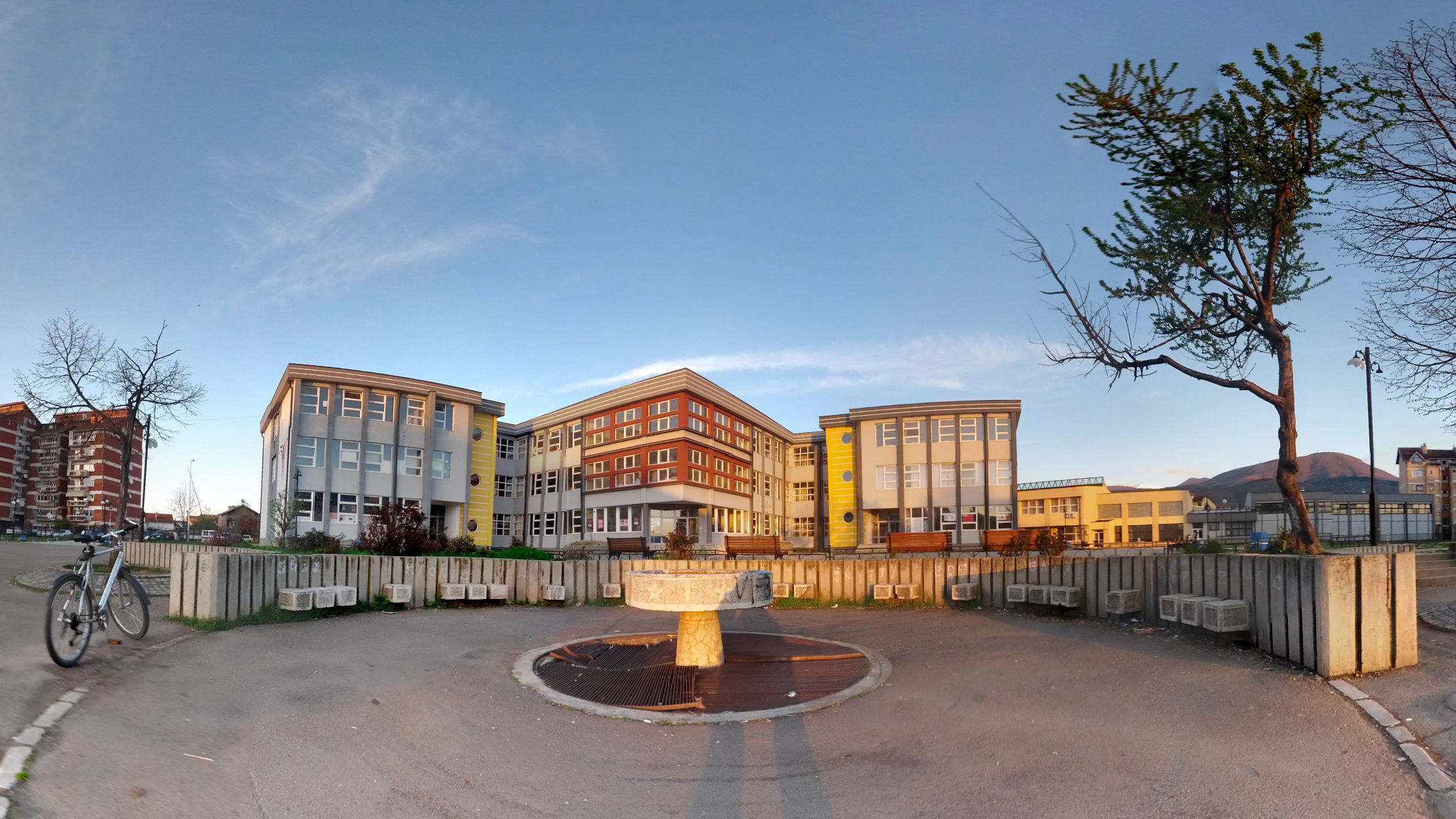 Primary School Abdyl Frasheri